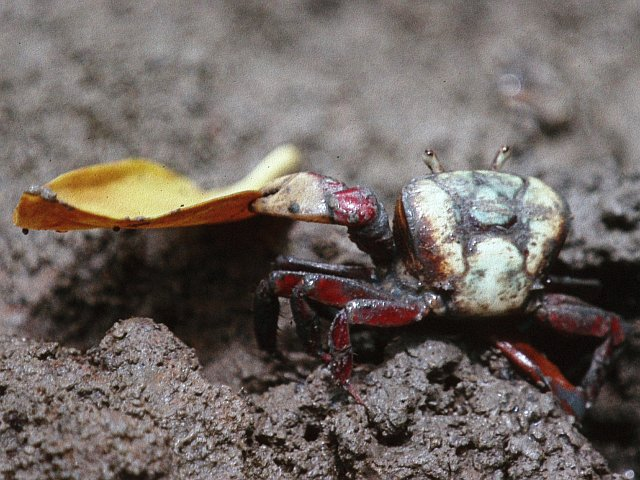 The mangrove crab Ucides cordatus cordatus (L.), fetching a Rhizophora mangle leaf. Ajuruteua Peninsula, Bragança, Pará, North Brazil*